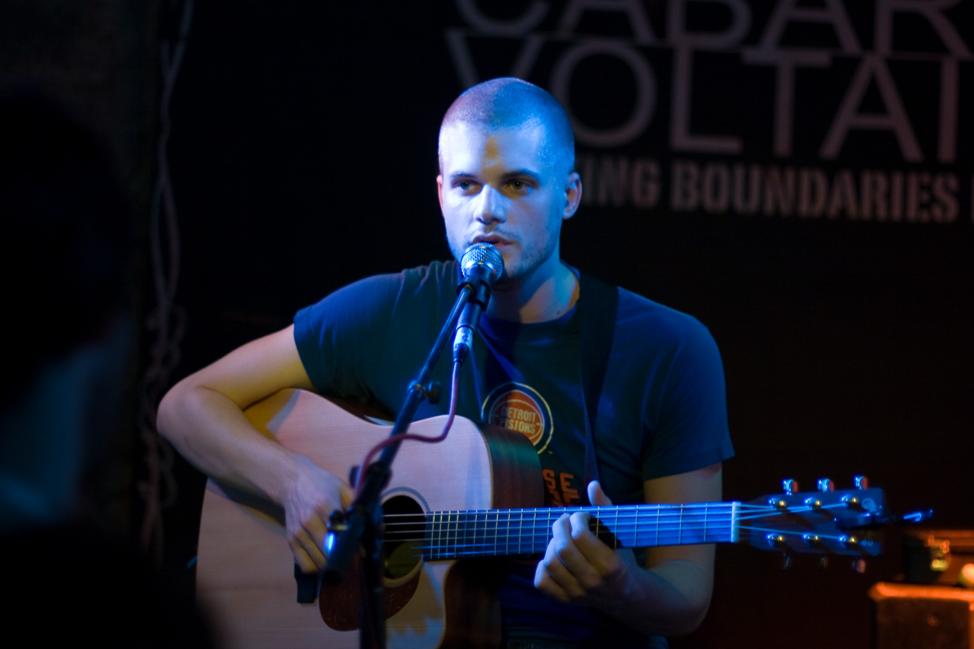 Jay performed at Cabaret Voltaire during the Edge Festival in Edinburgh.